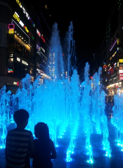 Downtown Sanbon, Gunpo, South Korea.